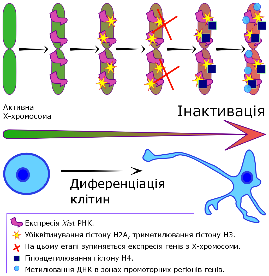 X chromosome inactivation during cell differentiation. Own work based on the illustration from Anton Wutz Gene silencing in X-chromosome inactivation: advances in understanding facultative heterochromatin formation // Nature Reviews Genetics. — (2011) С. 542-553. PMID 21765457.